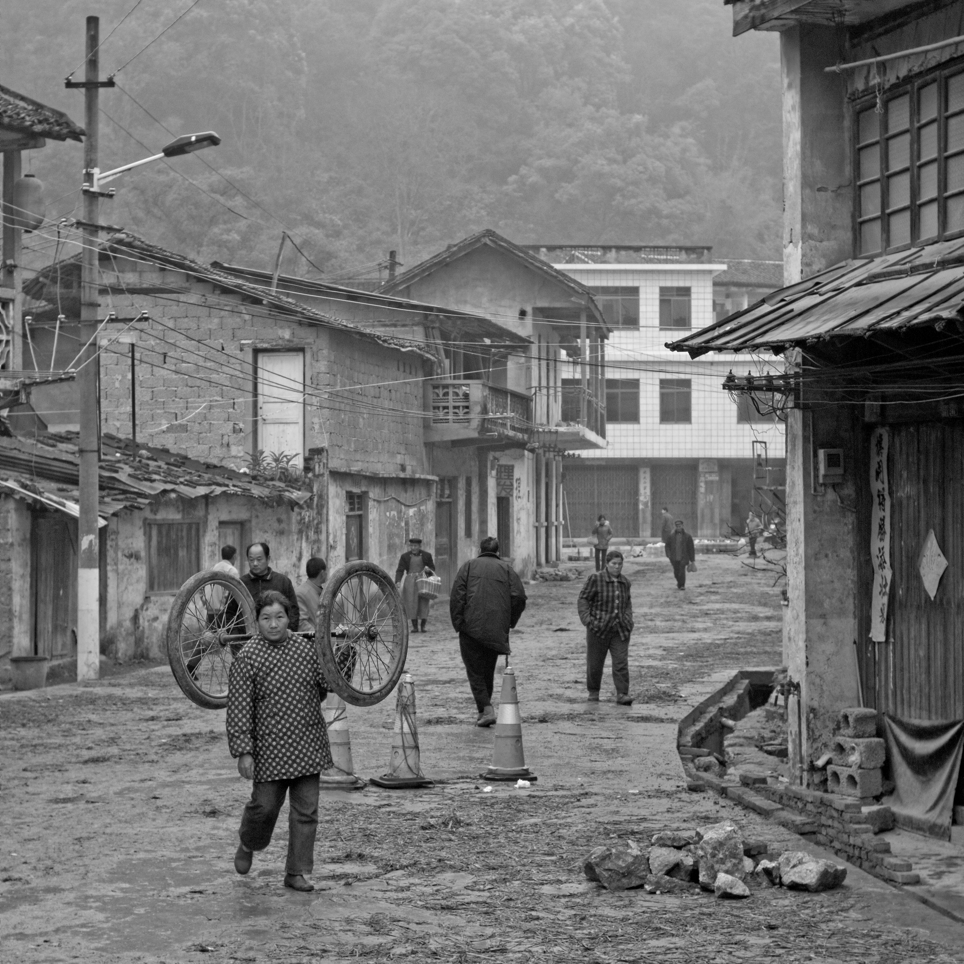 In the streets of a little village near Yangshuo, China.